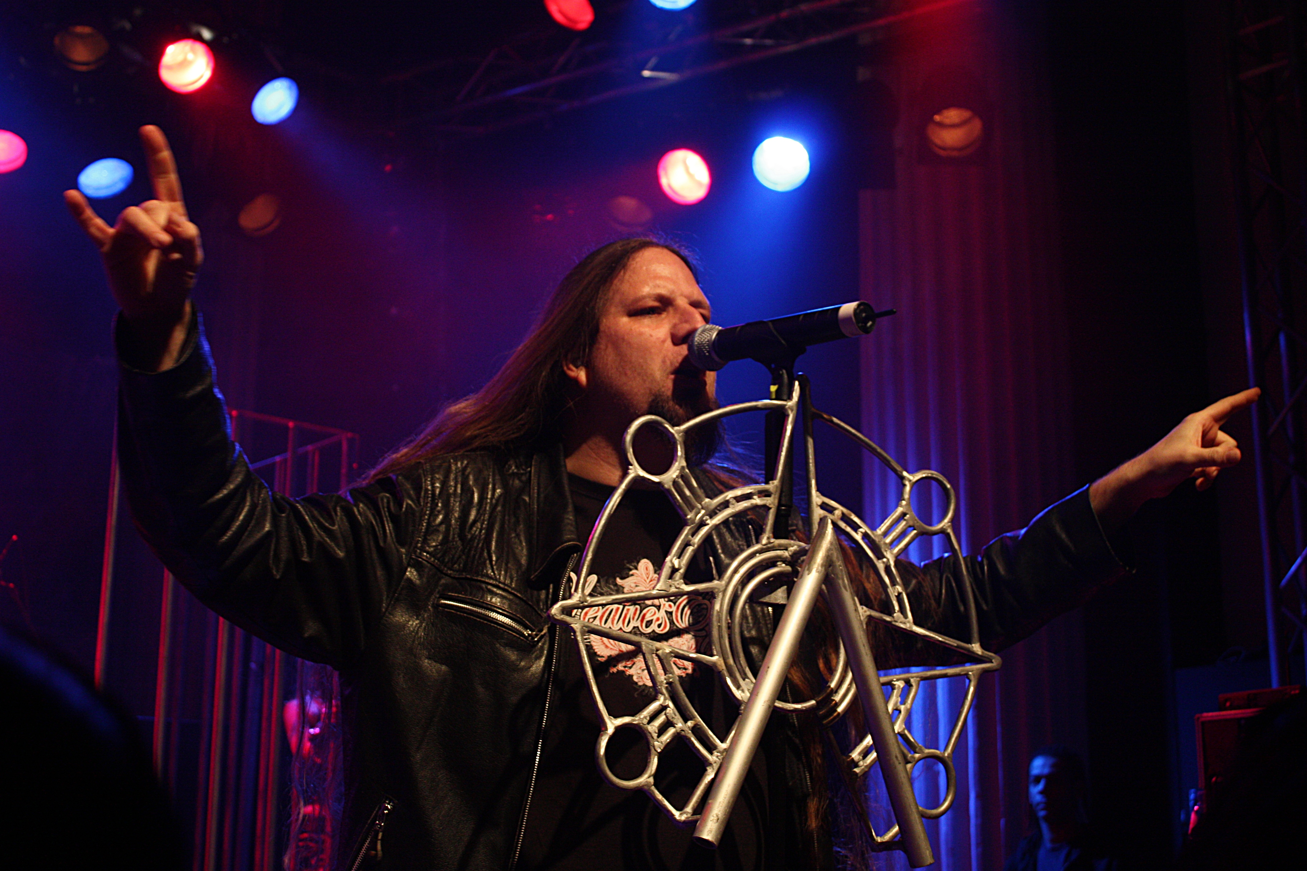 Alexander Krull from Atrocity and Leaves' Eyes at the Beauty and the Beast Tour, Dordrecht.